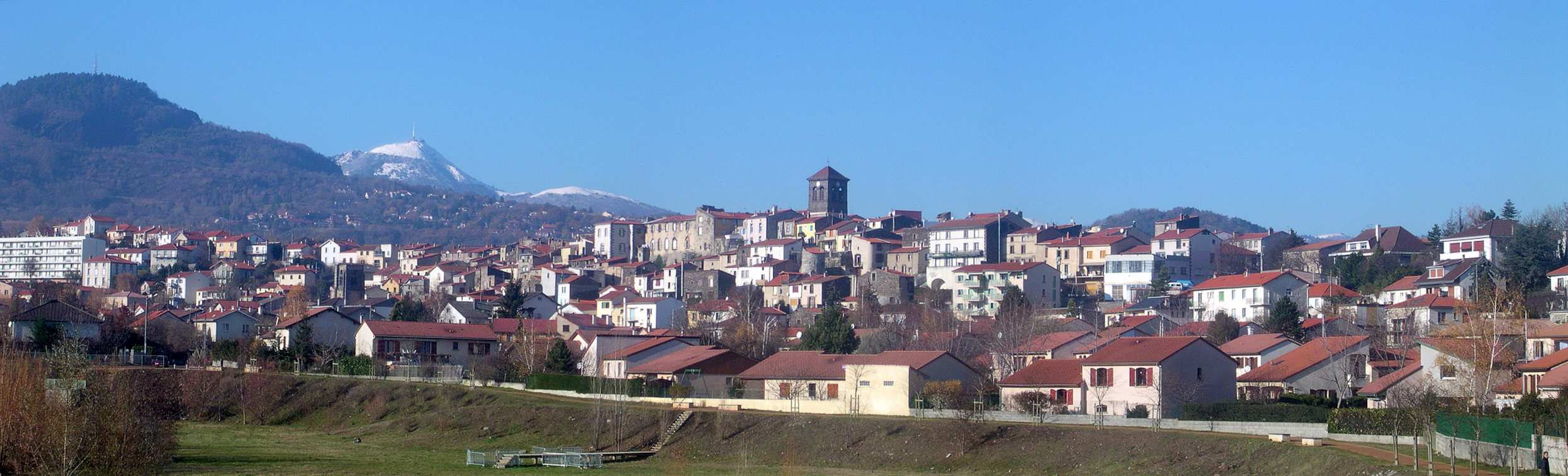 Français La petite ville de Beaumont dans la banlieue de Clermont-Ferrand (Auvergne en France). En arrière plan, vous pouvez voir le puy de Dôme et le petit puy de Dôme enneigé. Photographie composée de trois clichés assemblés en utilisant Panorama Maker. Photographies prises par Romary le 11 décembre 2005. English Small town of Beaumont in the suburn of Clermont-Ferrand. (Auvergne in France). On the back, you can see the Puy de Dôme and the petit de Dôme with snow The picture was made with three pictures assembled with Panorama Maker software. Pictures taken by Romary Decemebre, 11th 2005